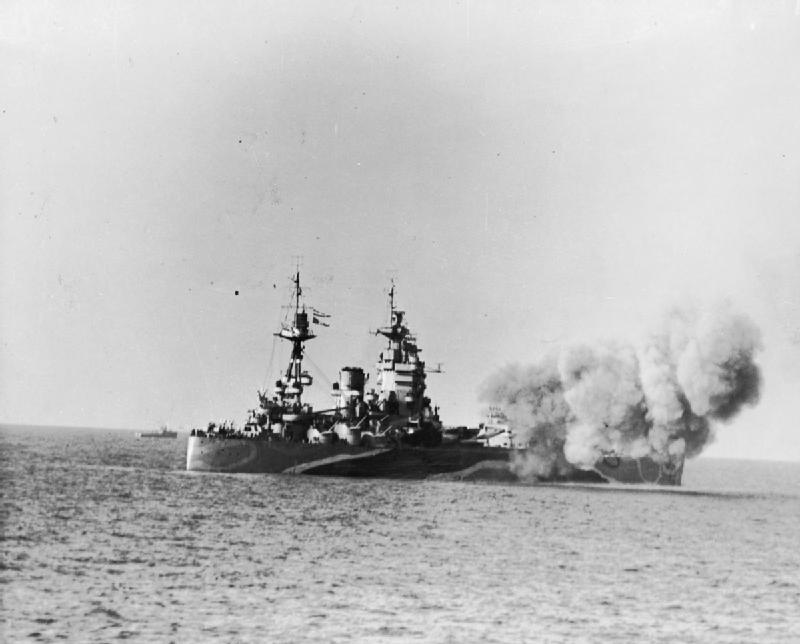 The Royal Navy Off the Caen Coast, Normandy, June 1944 The battleship HMS RODNEY firing at shore targets in Normandy. Photograph taken from on board HMS HOLMES operating off the Caen beachhead.